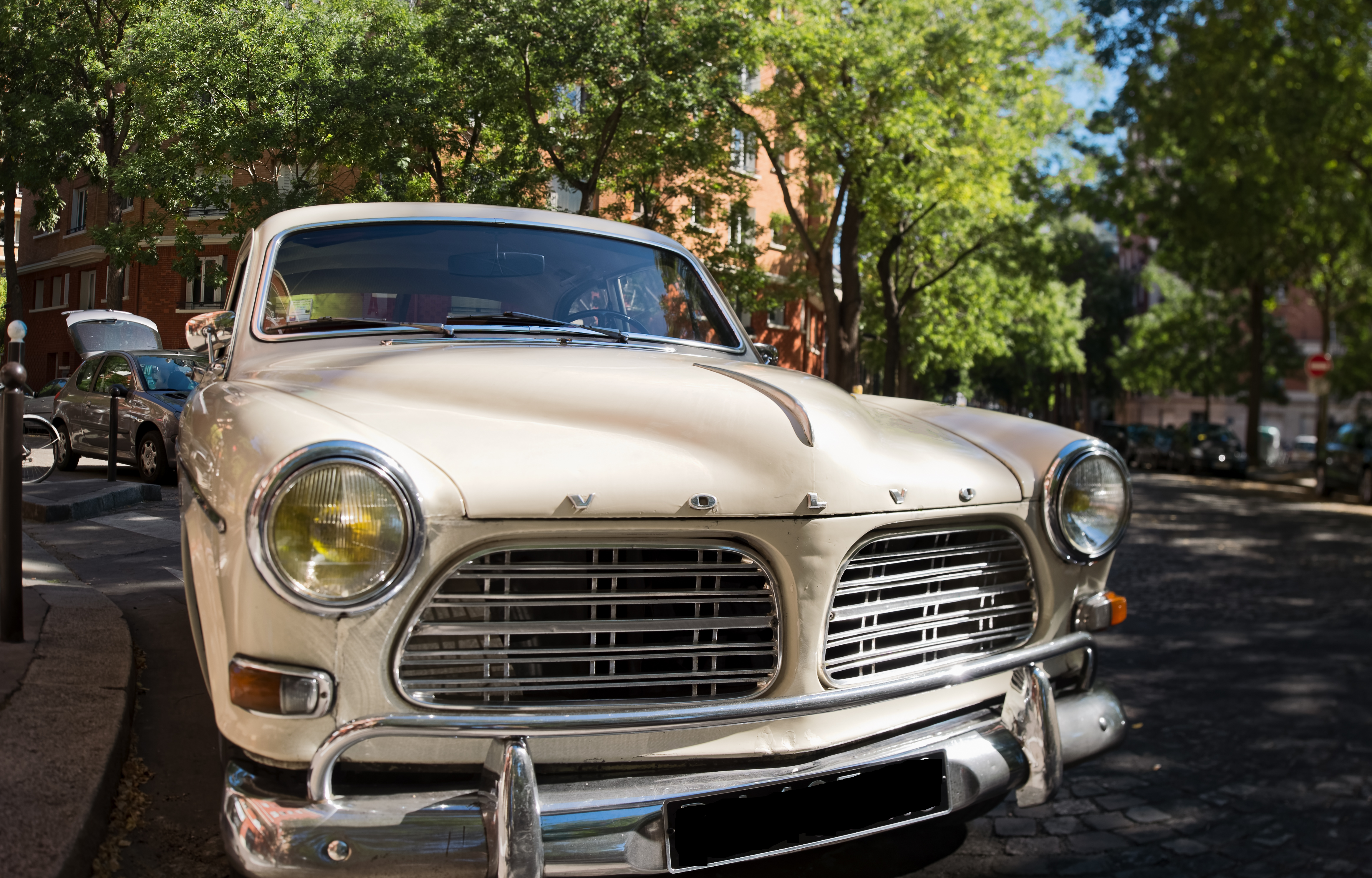 Volvo Amazon in the streets of Paris, France, September 2016.